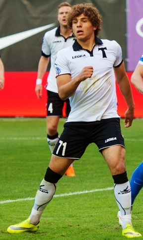 Georgiy Tigiev